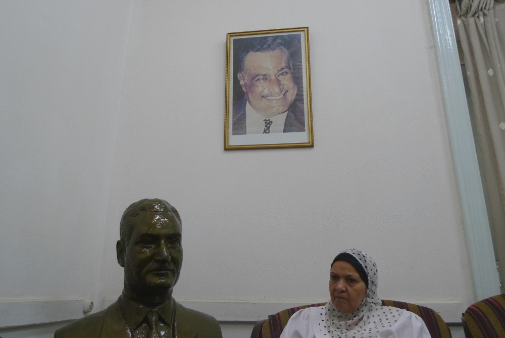 Sowad Abdelhamid sits near icons of former Egyptian president and famous Arab nationalist Gamel Abdel Nasser in the headquarters of the Nasserist Party. Abdelhamid was running for a female quota seat against tough NDP competition and admitted her party's fortunes were at a low ebb. [Evan Hill]